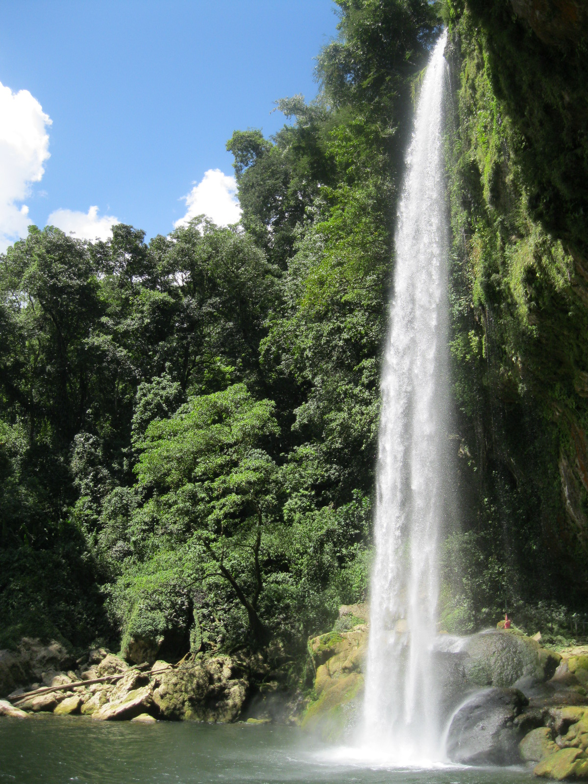 Waterfall Misol-Ha